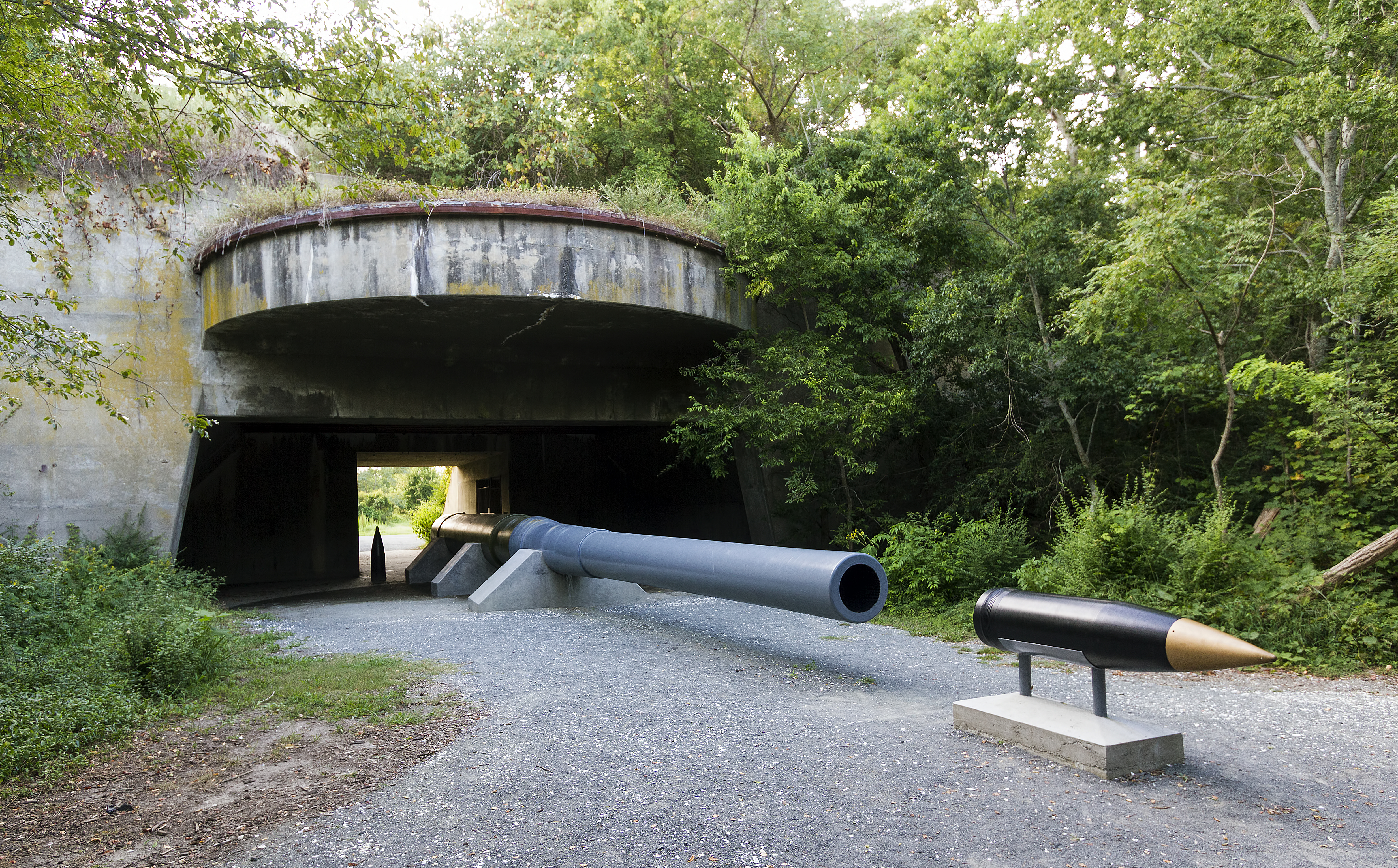 16 inch gun and projectile at Fort John Custis, later Cape Charles Air Force Station, now Eastern Shore of Virginia National Wildlife Refuge, Cape Charles, Virginia, USA. The gun is a spare gun tube from the USS Missouri., which was mounted aboard the battleship in September 1945 at the formal surrender of Japan. It is not the same gun used in the US Army coastal fortification when it was active.